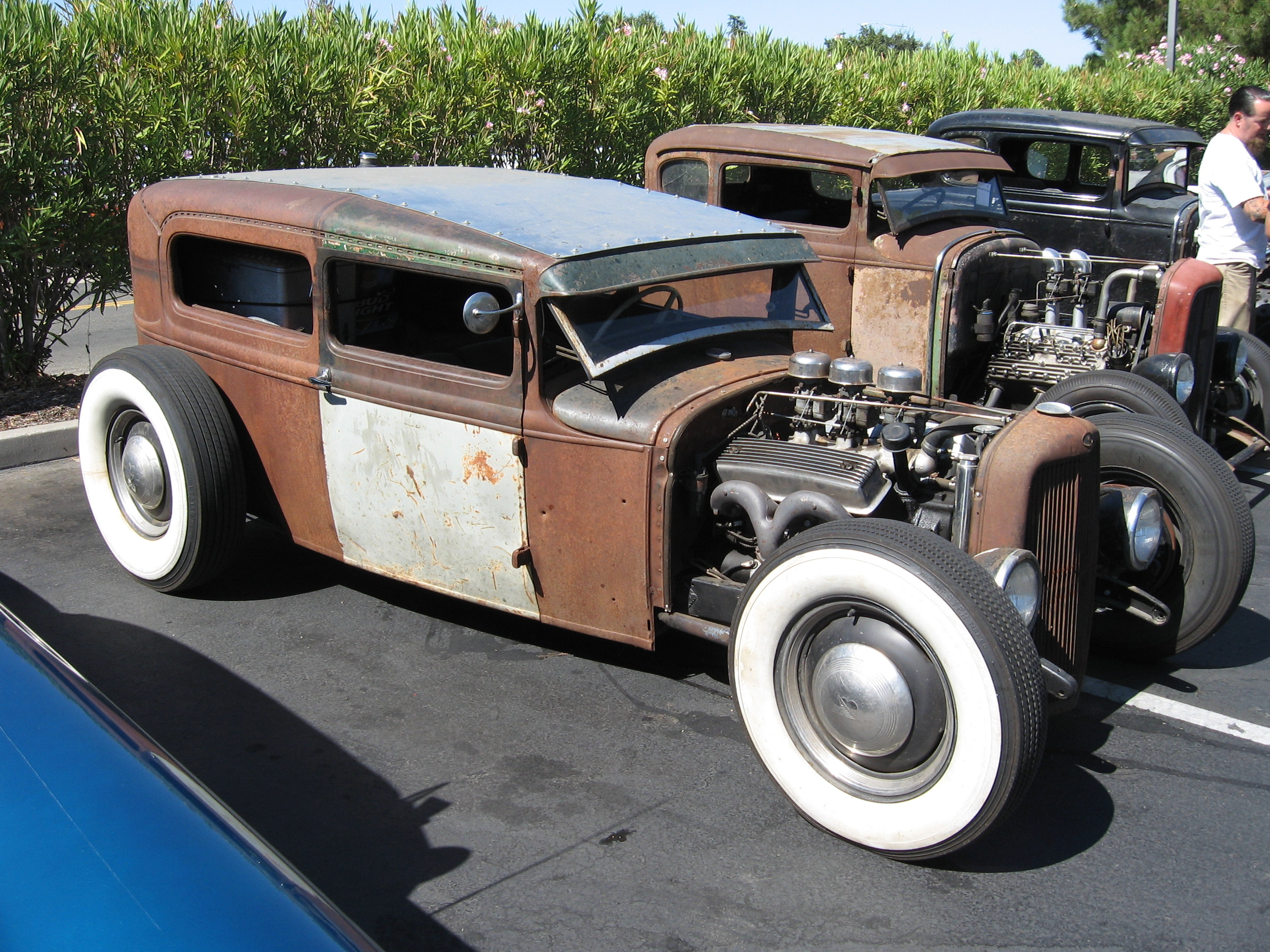 A picture of a Rat Rod taken by myself